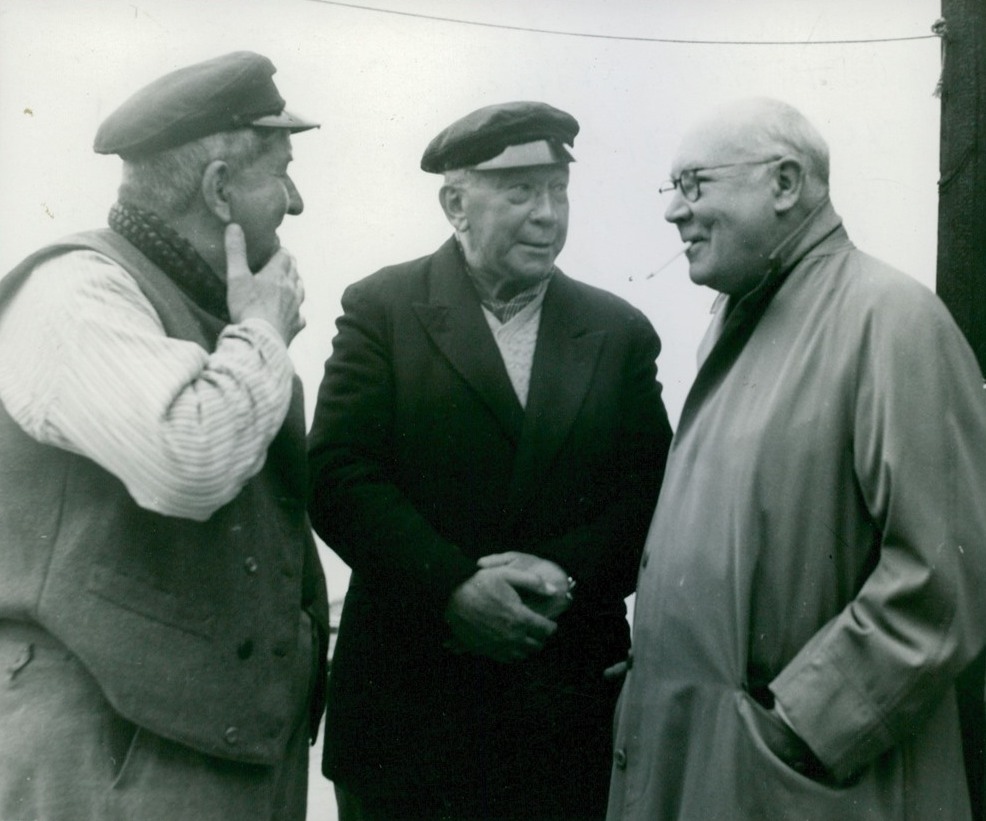 Swedish actors Josua Bengtson (left) and Axel Högel (middle) with the director Gustaf Molander (right), probably on the set of the film Flottare med färg (1952)